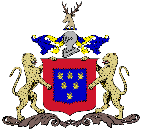 Sirmur State Coat of Arms This work is in the public domain in India because its term of copyright has expired. The Indian Copyright Act applies in India, to works first published in India. According to The Indian Copyright Act, 1957 (Chapter V Section 25), Anonymous works, photographs, cinematographic works, sound recordings, government works, and works of corporate authorship or of international organizations enter the public domain 60 years after the date on which they were first published, counted from the beginning of the following calendar year (ie. as of 2018, works published prior to 1 January 1958 are considered public domain). Posthumous works (other than those above) enter the public domain after 60 years from publication date. Any other kind of work enters the public domain 60 years after the author's death. Text of laws, judicial opinions, and other government reports are free from copyright. Photographs created before 1958 are in the public domain 50 years after creation, as per the Copyright Act 1911. This file may not be in the public domain outside India. The creator and year of publication are essential information and must be provided. See Wikipedia:Public domain and Wikipedia:Copyrights for more details. This image shows a flag, a coat of arms, a seal or some other official insignia. The use of such symbols is restricted in many countries. These restrictions are independent of the copyright status.